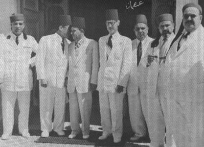 Les membres du gouvernement Chenik (de gauche à droite) : Dr. Mohamed Ben Salem (Santé), Salah Ben Youssef (Justice), M'hamed Chenik (Grand vizir), Dr. Mahmoud El Materi (Intérieur), Hamadi Badra (Travail et Affaires Sociales), Mohamed Salah Mzali (Commerce, Industrie et Artisanat) et Mohamed Saâdallah (Agriculture)